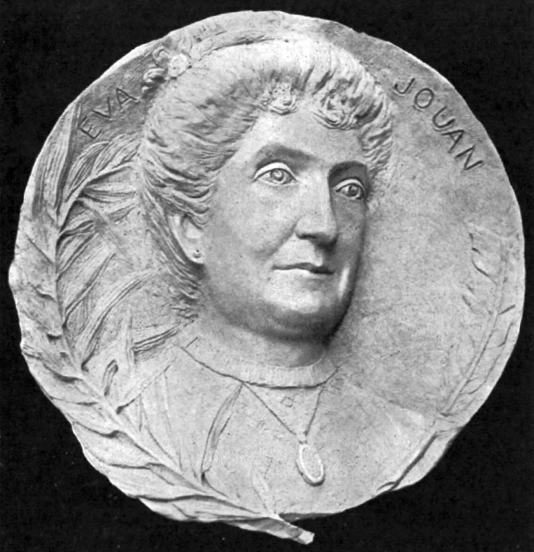 Photographie d'un portrait sculpté d'Éva Jouan, publié en 1910 dans les Annales de la Société royale académique de Nantes et du département de la Loire-Inférieure